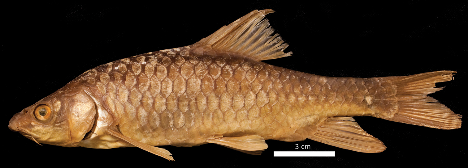 Carasobarbus exulatus, holotype (BMNH 1976.4.7:299) from Wādī Ḩaḑramawt at Qasam. The Natural History Museum, London, photo P. Hurst.